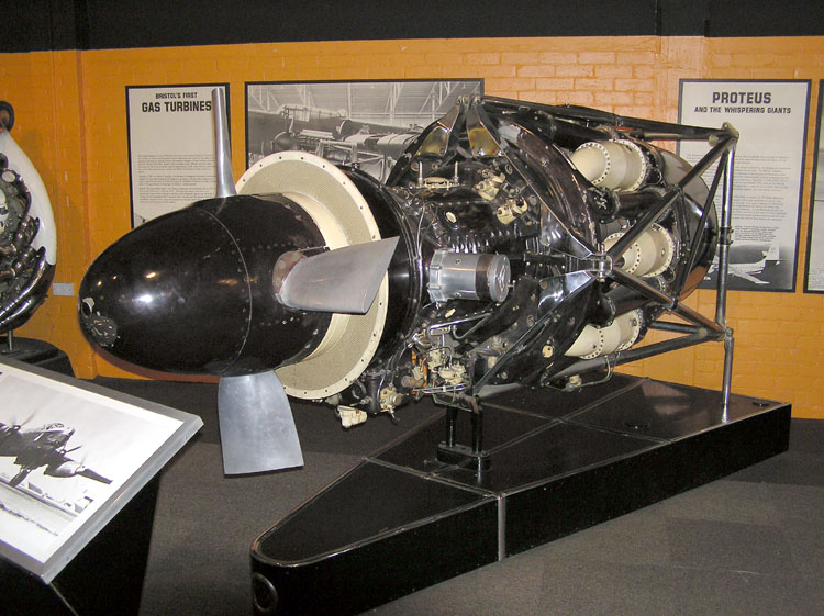 Bristol Theseus engine at Bristol Industrial Museum, Bristol, England. Taken by Adrian Pingstone in August 2004 and released to the public domain.